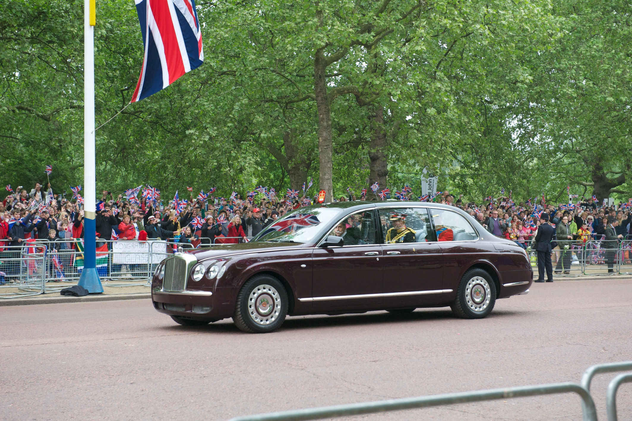 Princes William and Harry en route to Westminster Abbey